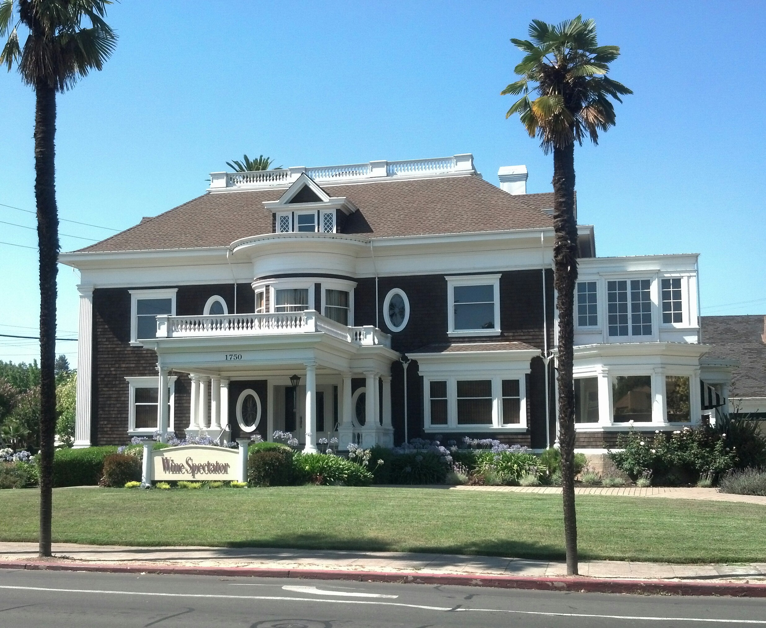 The offices of Wine Spectator magazine in Napa, California. Photo by Jim Heaphy.